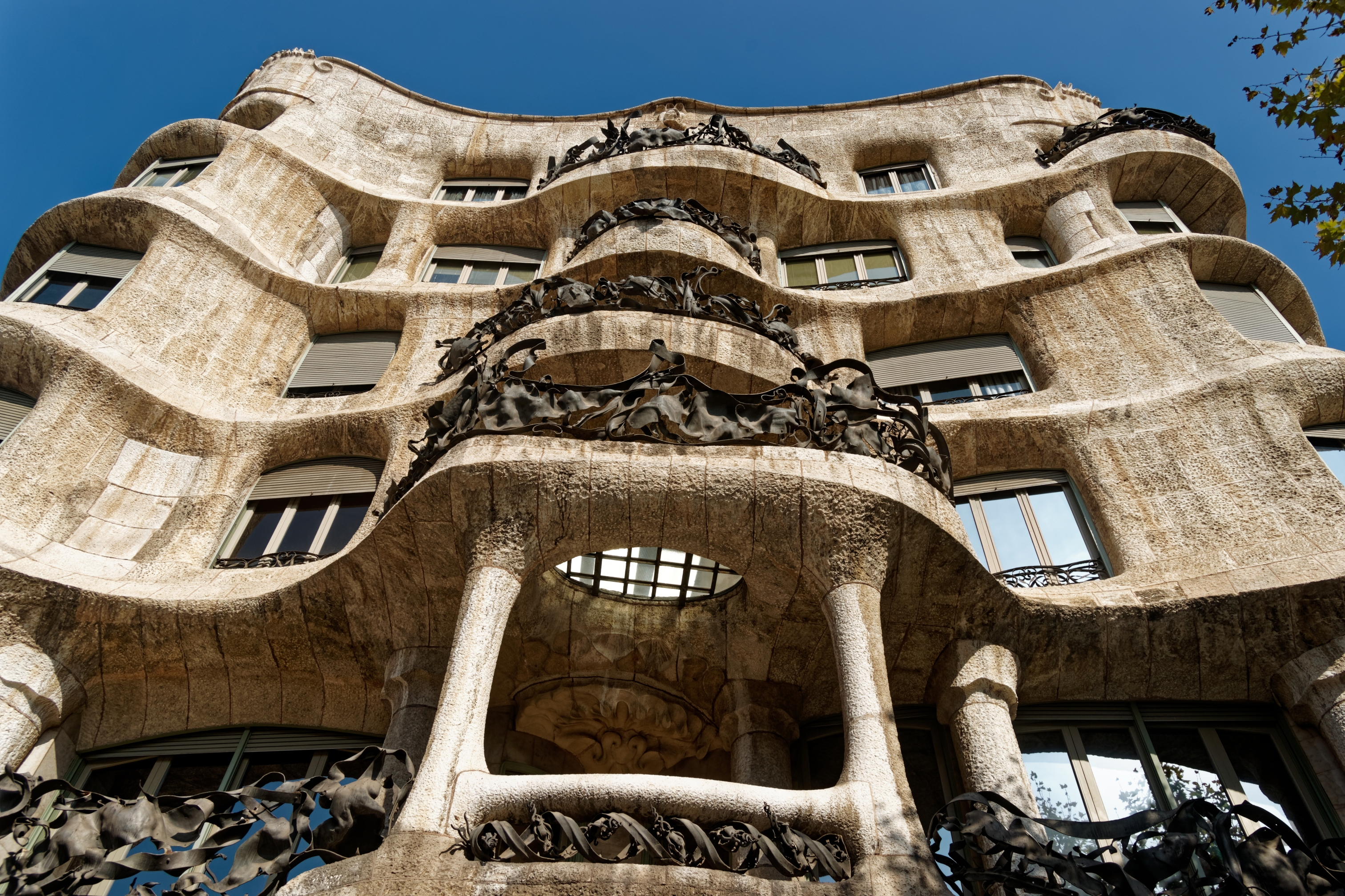 Barcelona - Passeig de Gràcia - Casa Milà 'La Pedrera' 1906-10 Antoni Gaudí